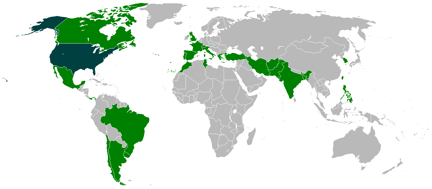 Foreign trips of Dwight Eisenhower during his presidency.